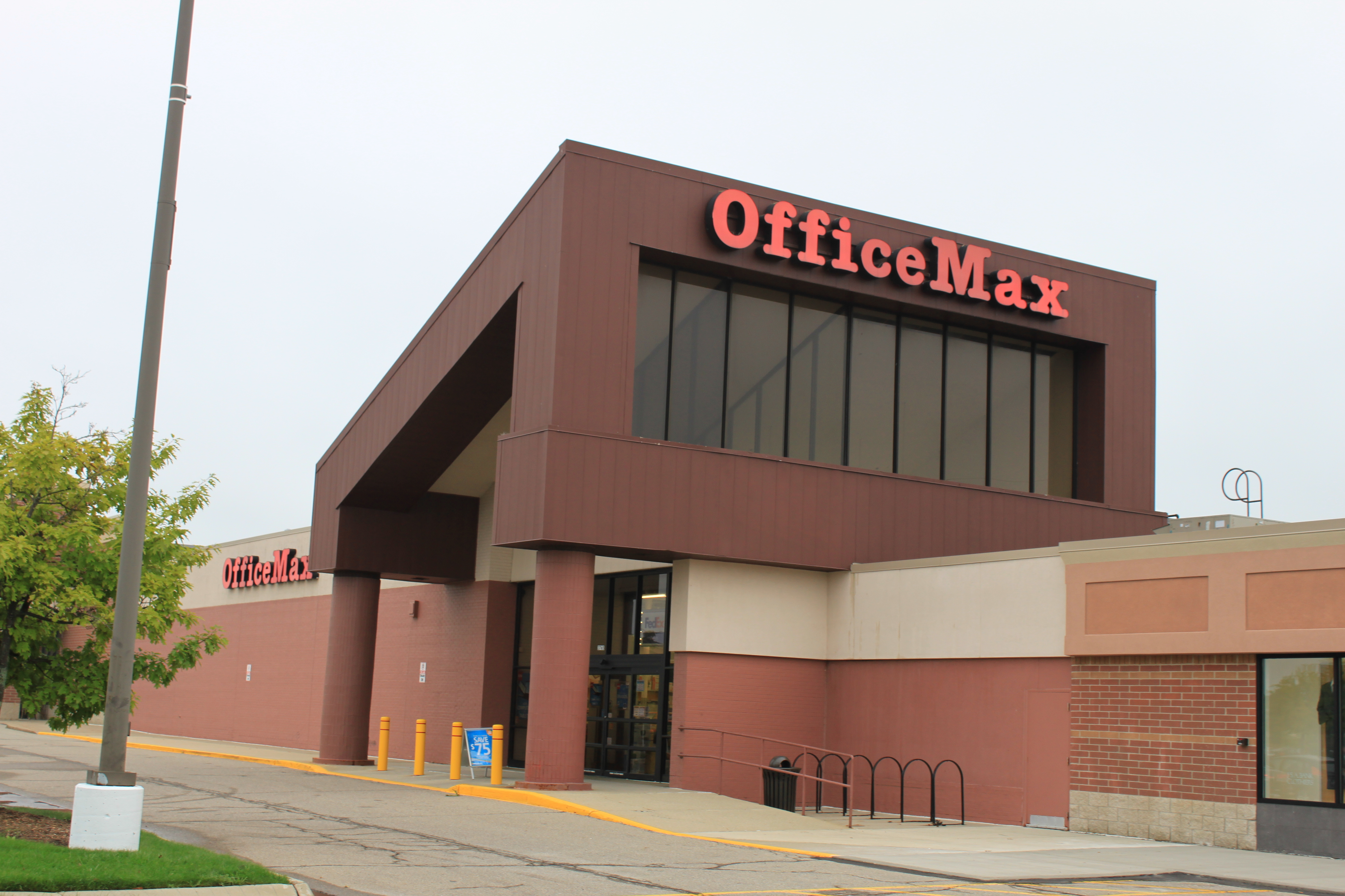 OfficeMax store, 3765 Washtenaw Avenue, Arborland Center, Ann Arbor, Michigan